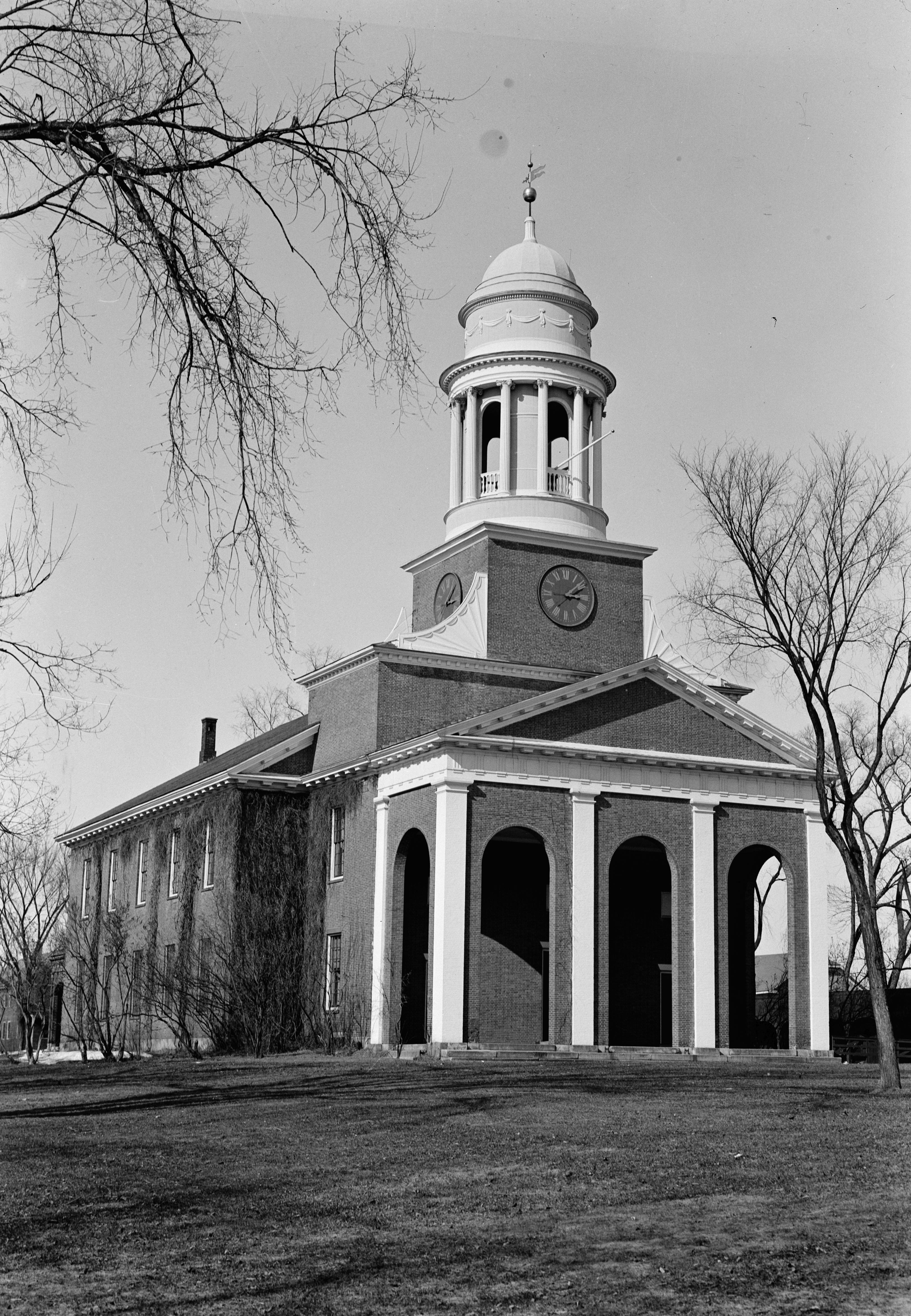 Meeting House, Lancaster, Massachusetts. Image courtesy of federal HABS—Historic American Buildings Survey of Massachusetts project.